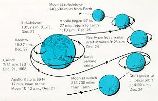 path of apollo 8 to the moon